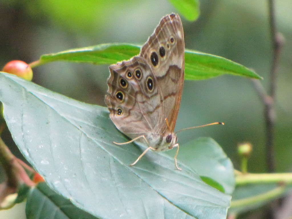 Northern Pearly-eye (Enodia anthedon), Mer Bleue Conservation Area, Ottawa, Ontario, Canada